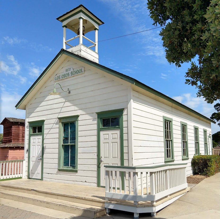 The restored Los Osos Schoolhouse located in the Los Osos Community Park. photo taken July 2019.